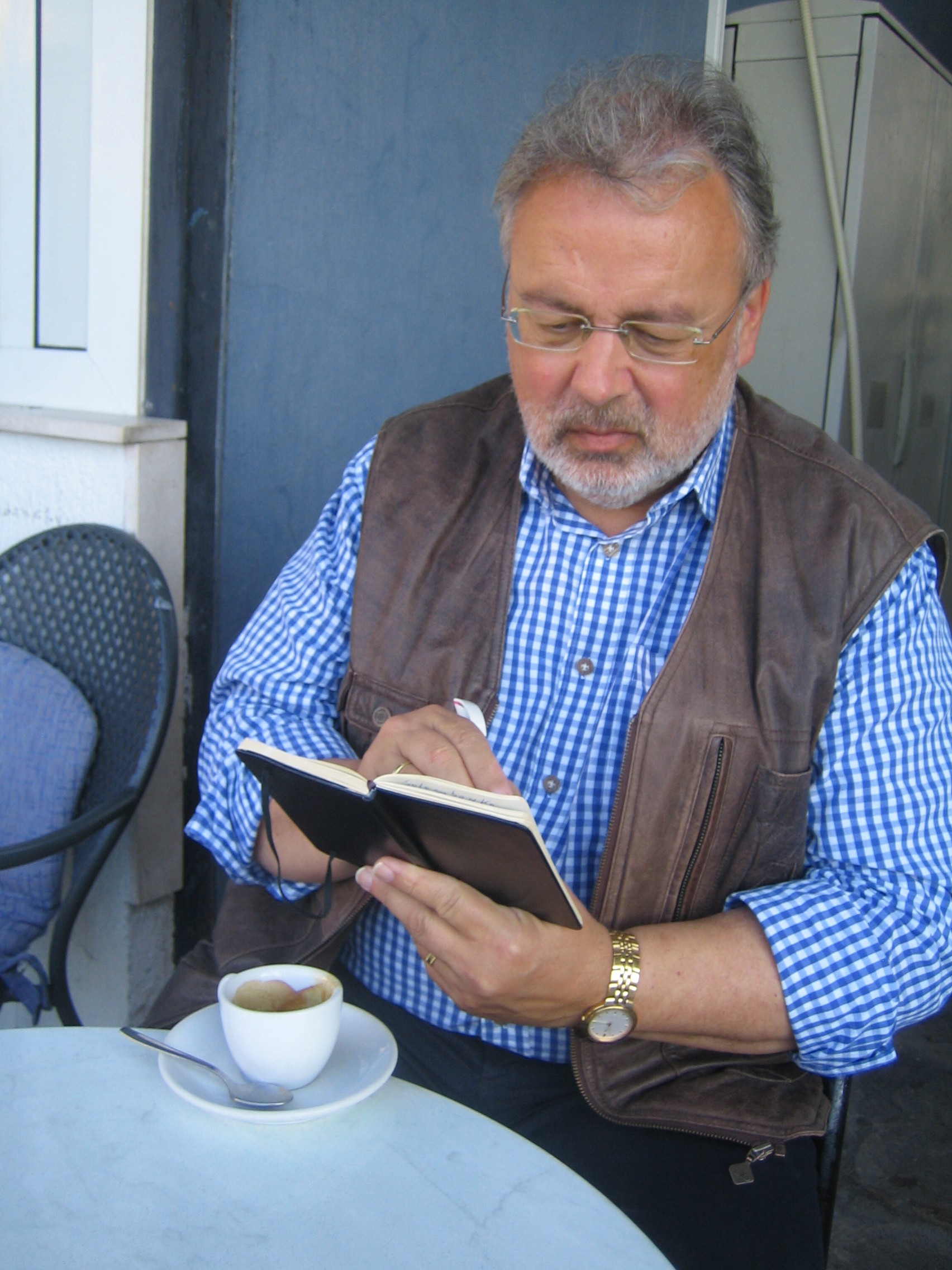 Karl Hagemann